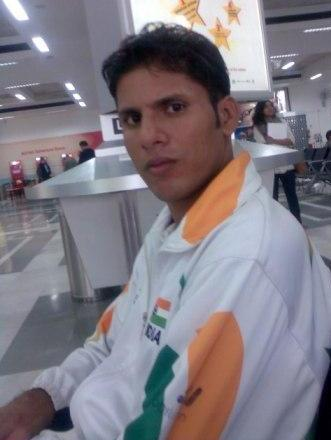 Devendra2004